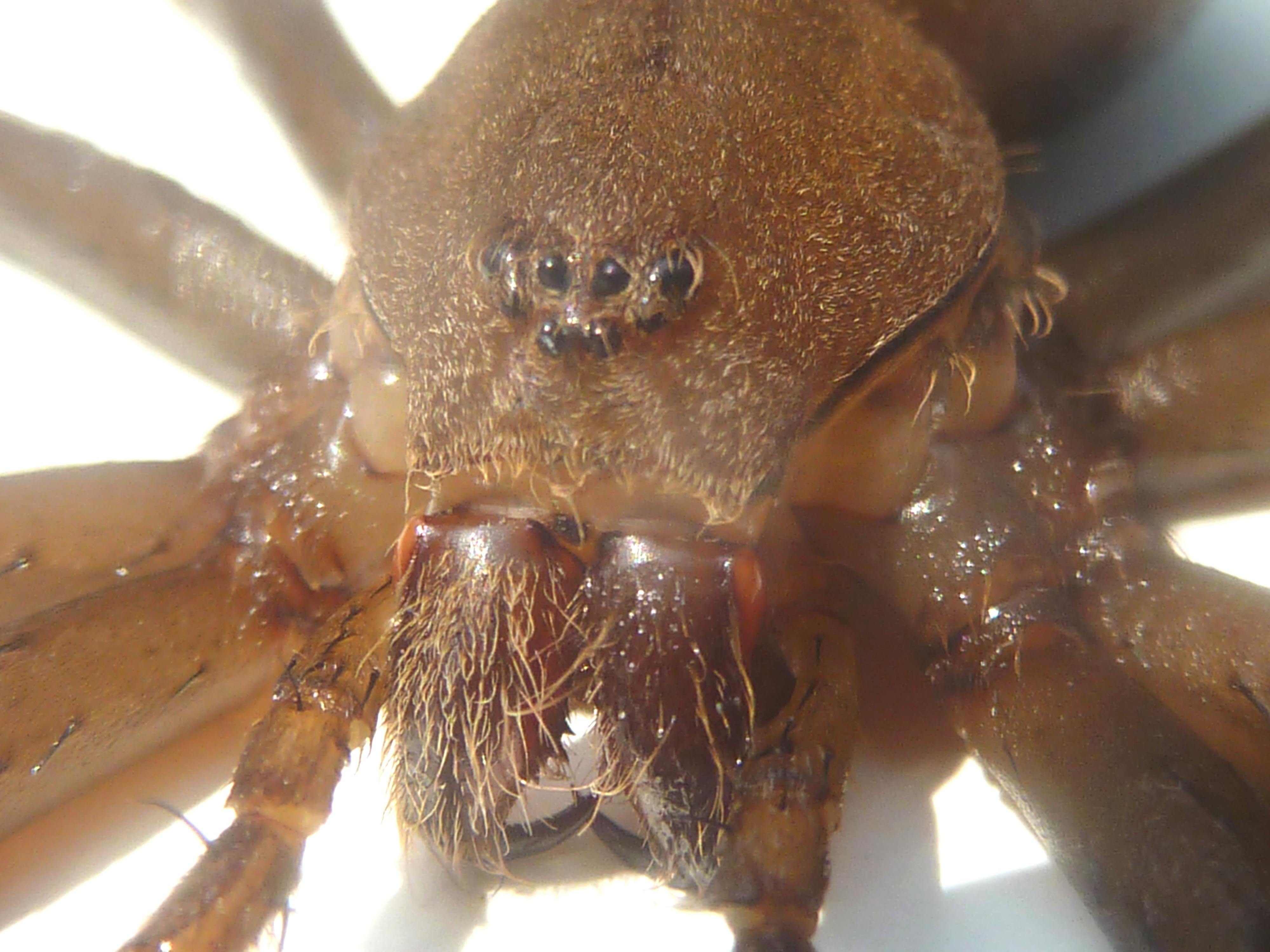 Female Nilus curtus spider collected in bulrush, in Faerie Glen, Pretoria. Structure of the epigynum confirmed identification.